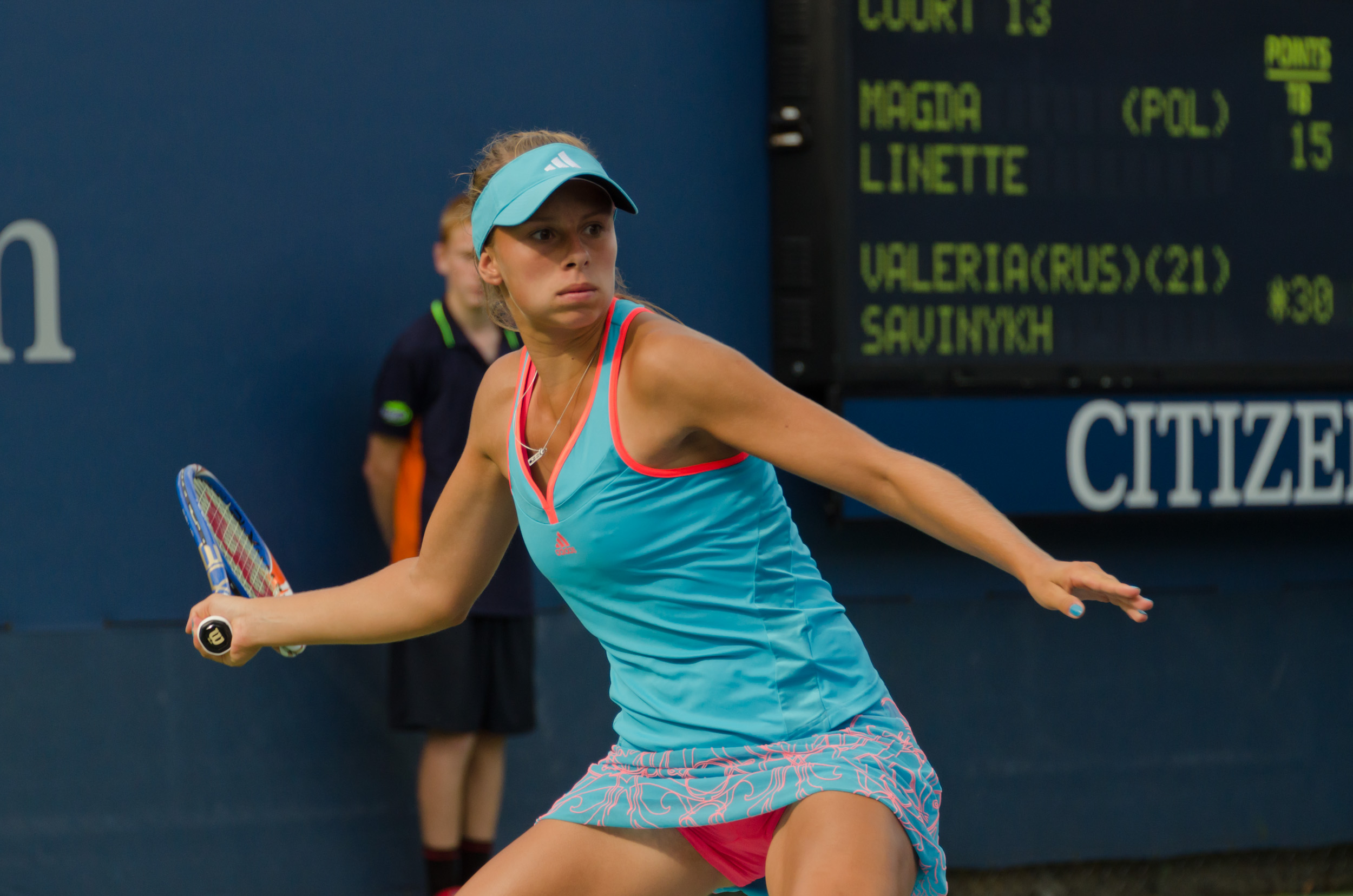 Magda Linette in her 2011 US Open Qualifying first round match.